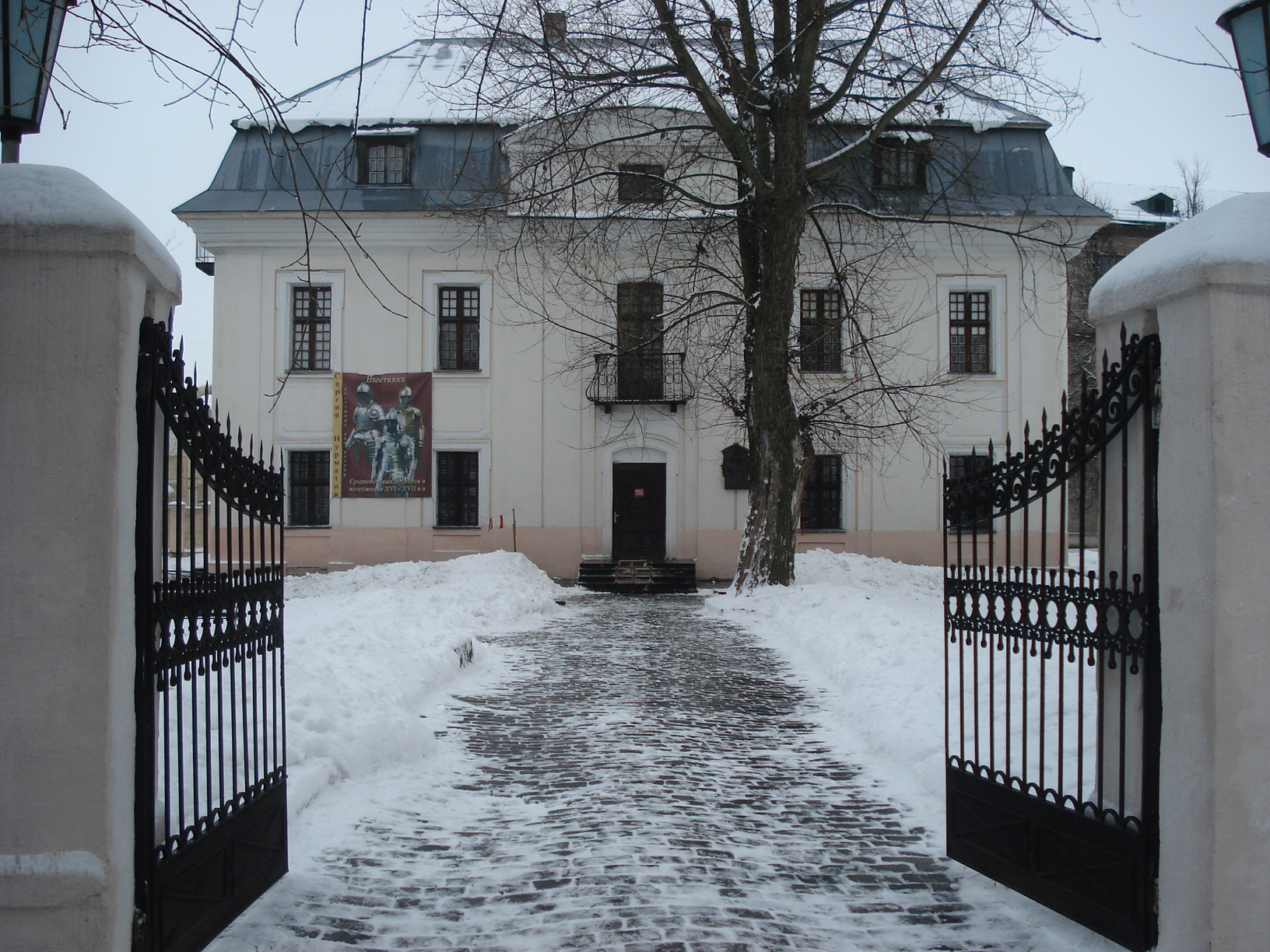 House of merchant Antashkevich. Now museum of painter Byalynitski-Birulya. 1698. Lyeninskaya Street, 37